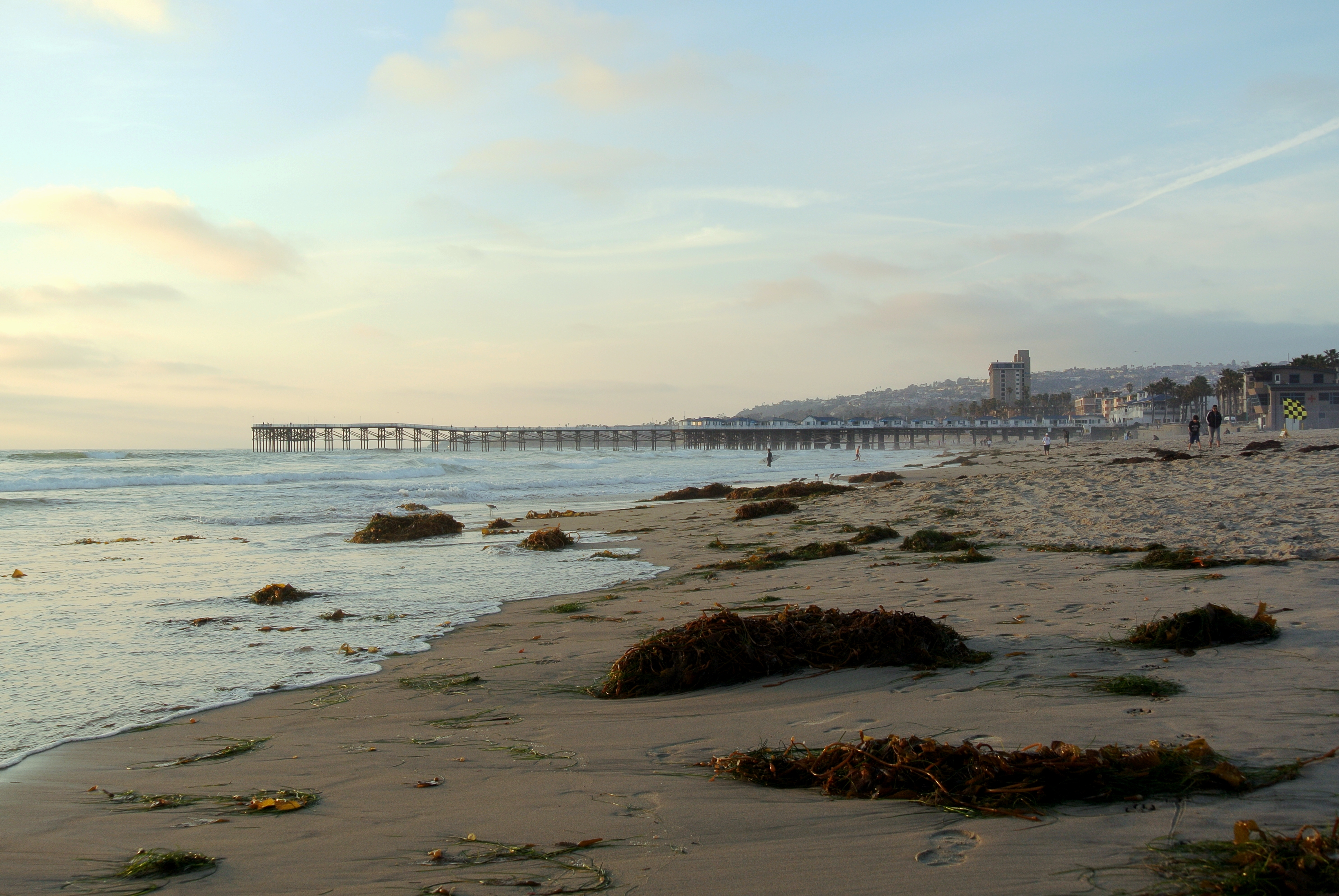 On Pacific Beach, San Diego, California, looking northwards, Crystal Pier is visible in the mid-distance, the southern part of La Jolla is visible in the far distance